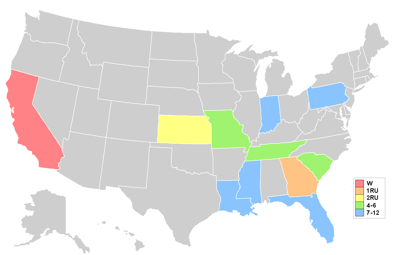 Map showing placements at the Miss Teen USA 1994 pageant. Key on graphic shows colour coding for break down of placements.